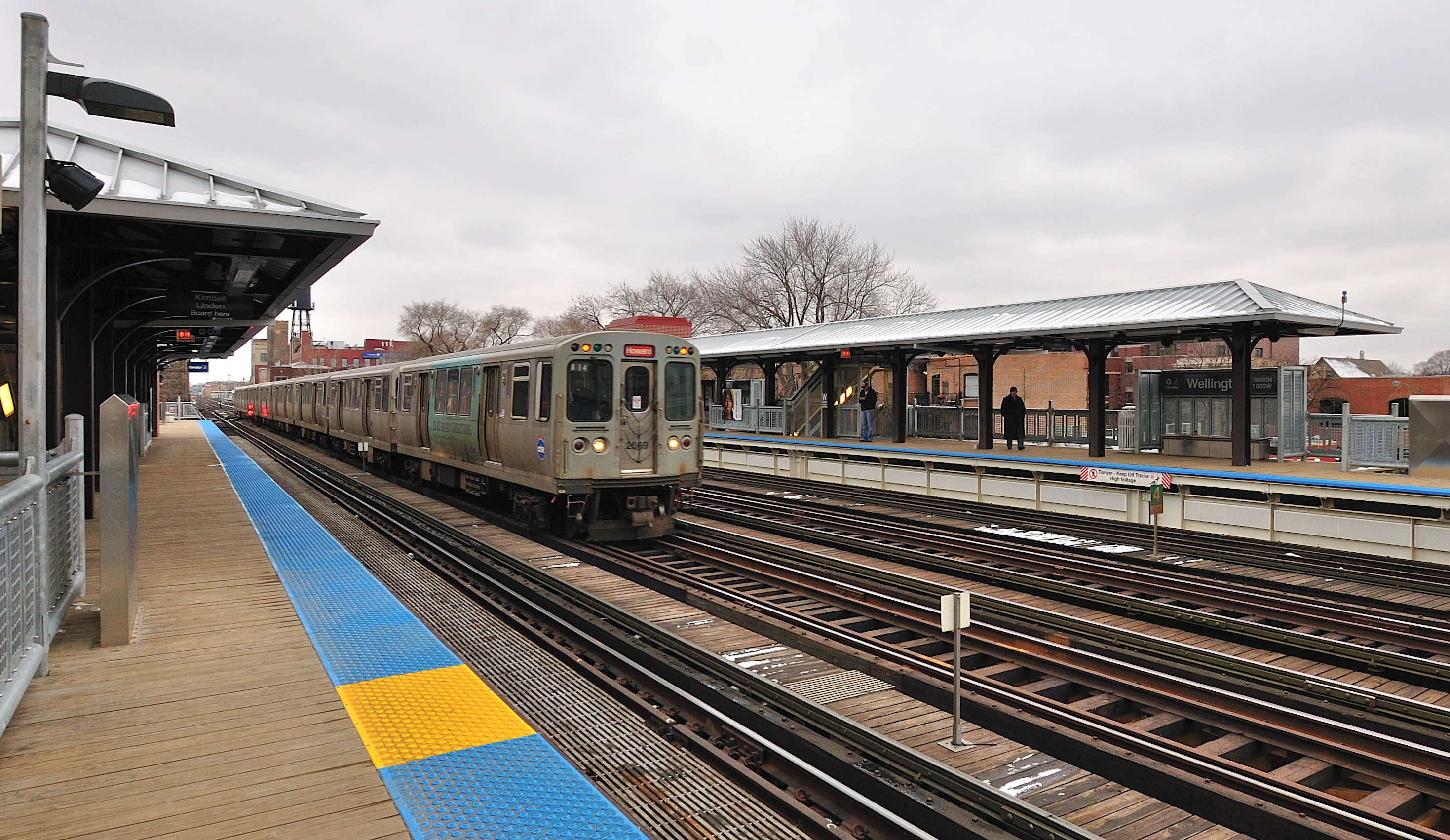 A CTA Red Line passes the re-constructed Wellington Station.